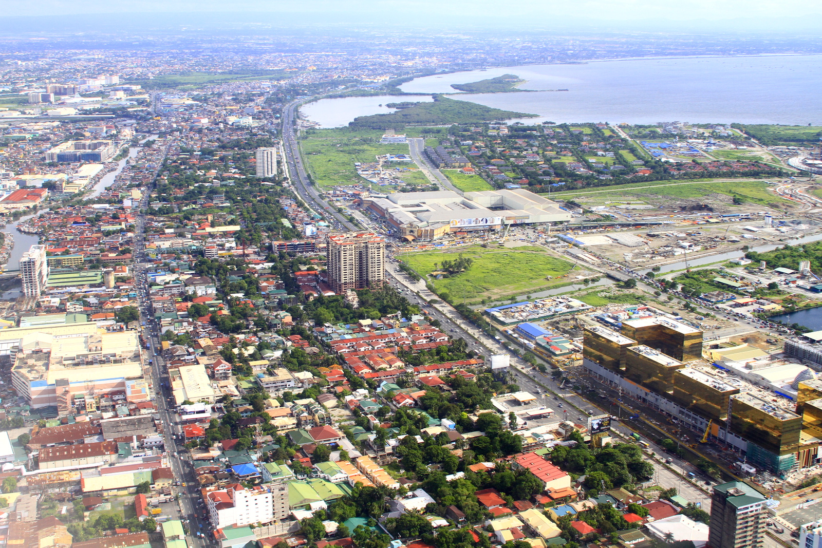 Aerial view of the Coastal Road (Manila-Cavite Expressway). Coastal Mall (center), City of Dreams Manila (lower right), Bayview International Tower (Tower opposite the field), July 2014.